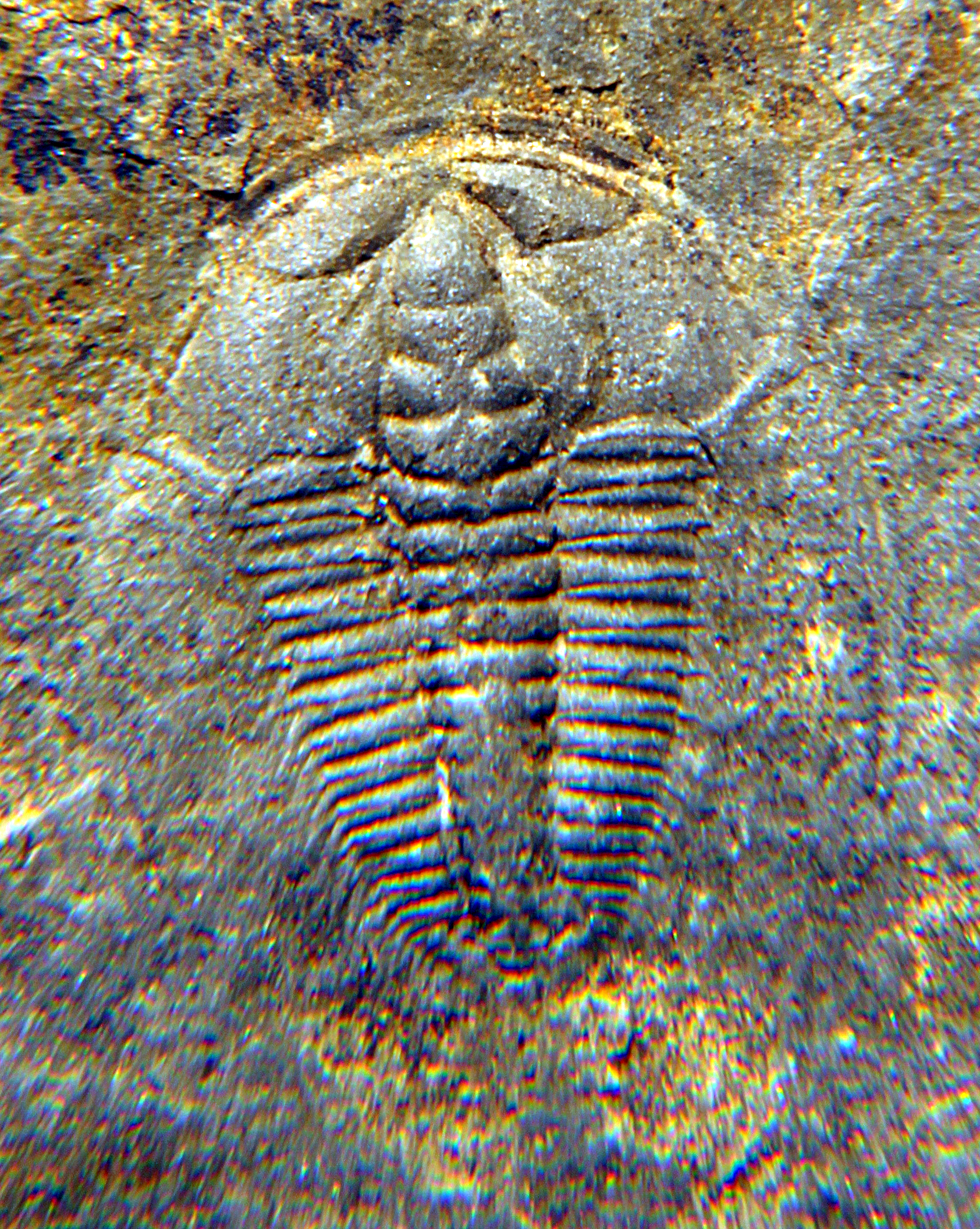 A Redlichia chinensis trilobite, Order Redlichiiida, Family Redlichiidae, 15mm, collected at the Maotian Shales near Kaili, Guizhou, China, from the earliest Middle Cambrian